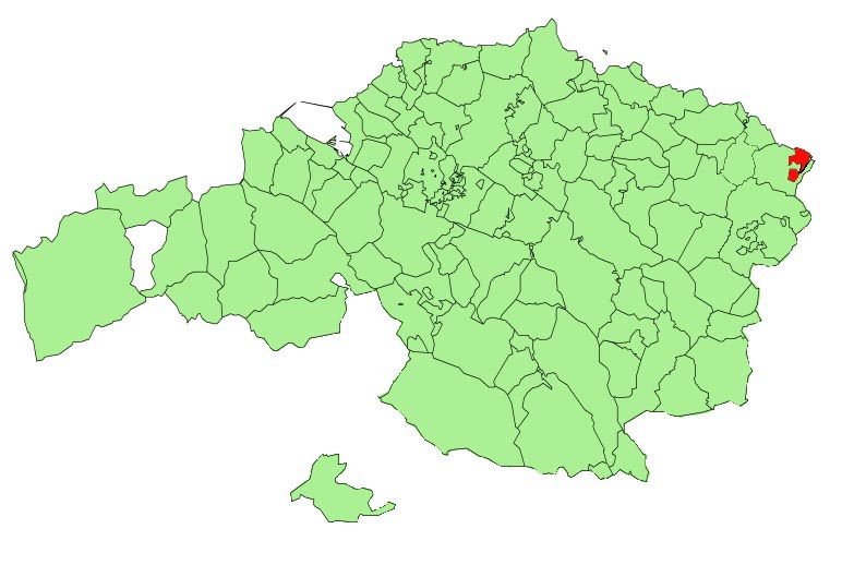 Ondarroa municipality in the province of Biscay